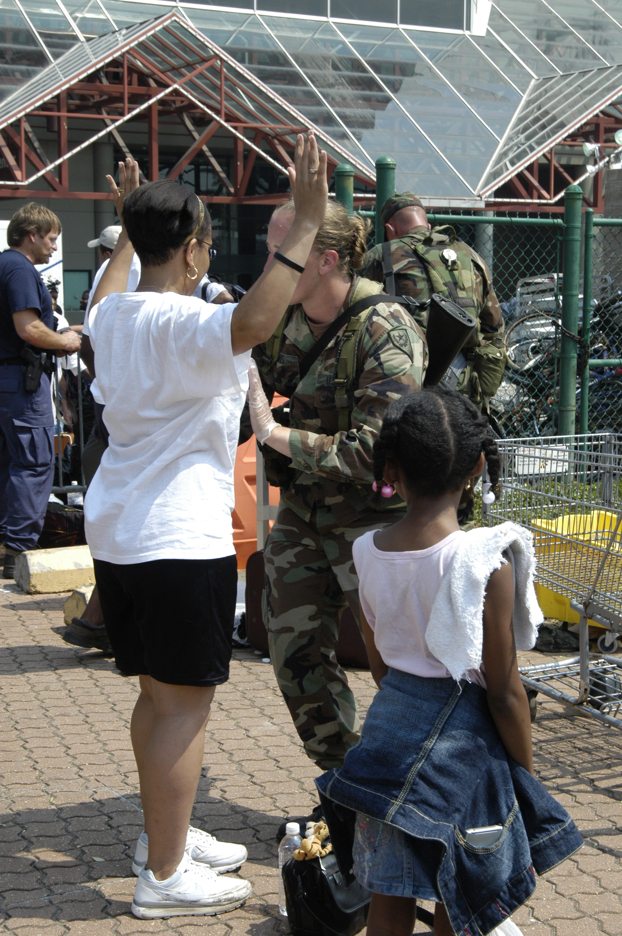 New Orleans, LA 9/5/05 -- A female evacuee at the New Orleans convention center is being cleared to be flown by helicopter to the airport. At the airport they will be given food and water and taken to shelters around the country. New Orleans continues to be evacuated as the city works to remove the flood waters brought by the failure of the Federal levee system during Hurricane Katrina. Photo by: Liz Roll